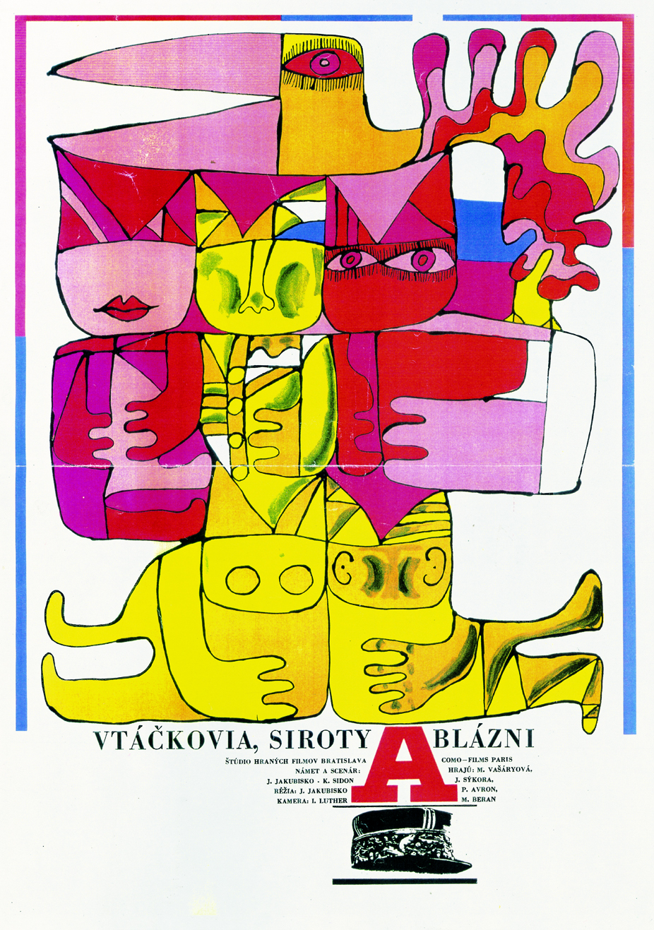 Official film posterSlovenčina: Oficiálný filmový plagát